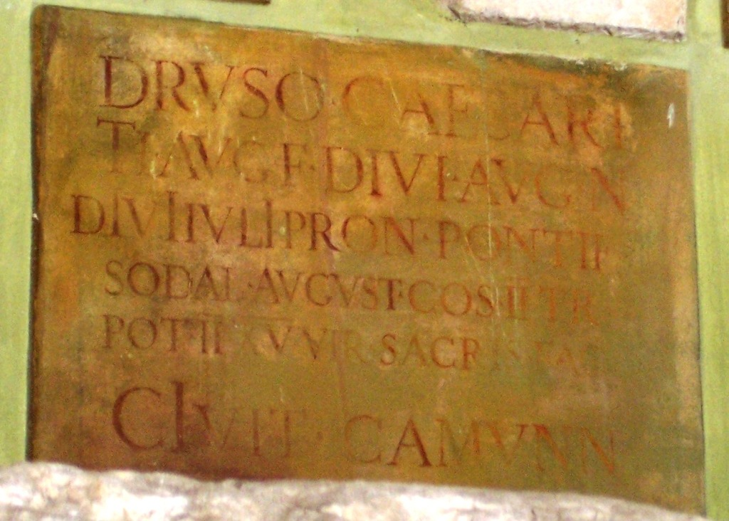 Brescia, Capitolium: Paint of an inscription which origins from Rogno, Val Camonica.